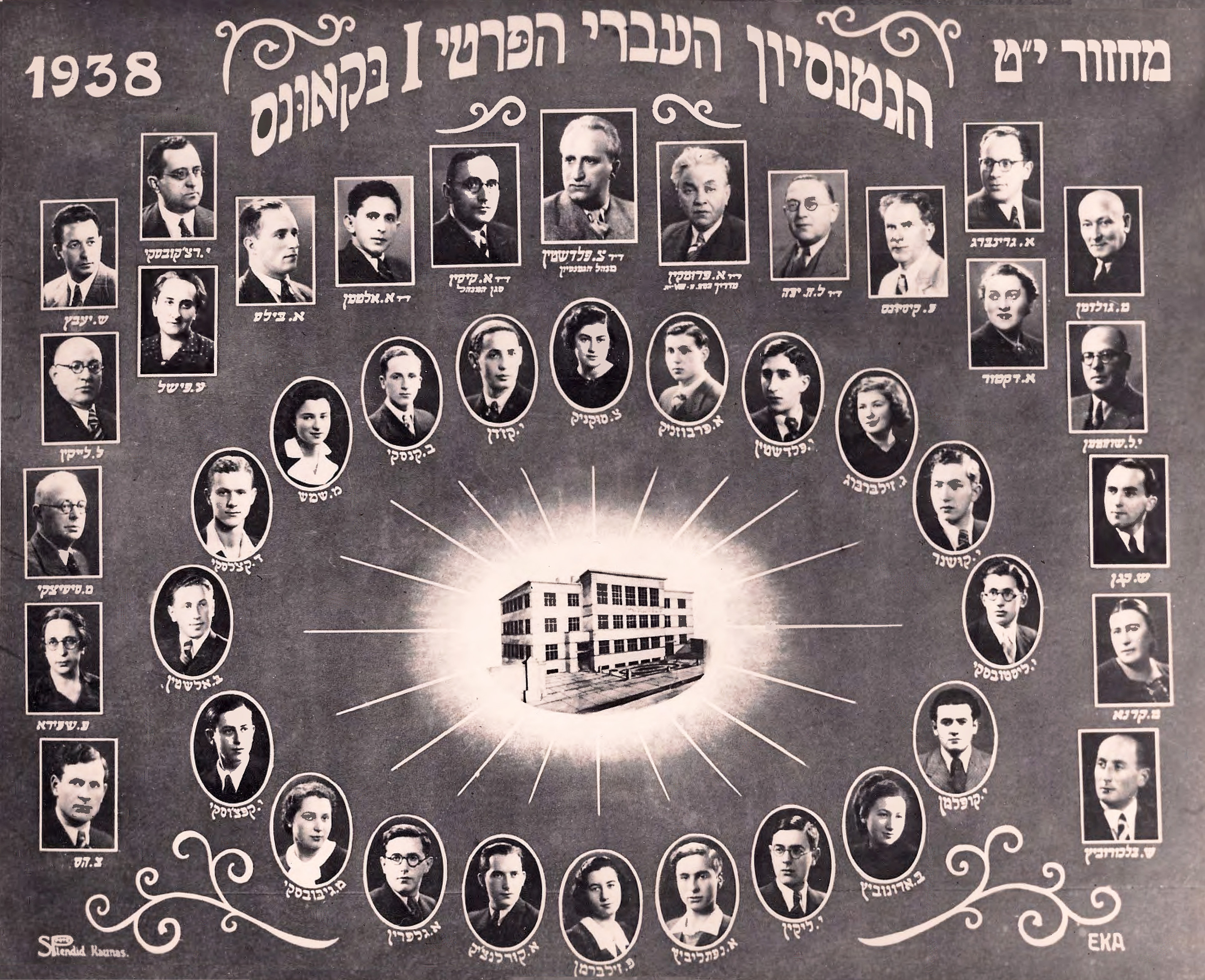 Kaunas Hebrew Realgymnasium, Class of 1938 (19th class)